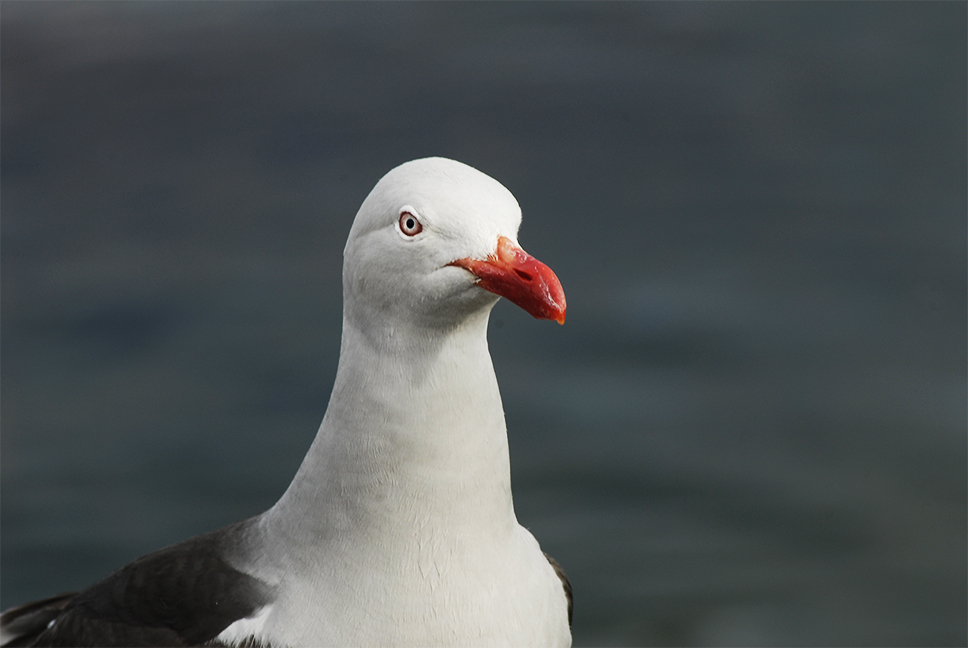 Dolphin Gull (Larus scoresbii). Own Work